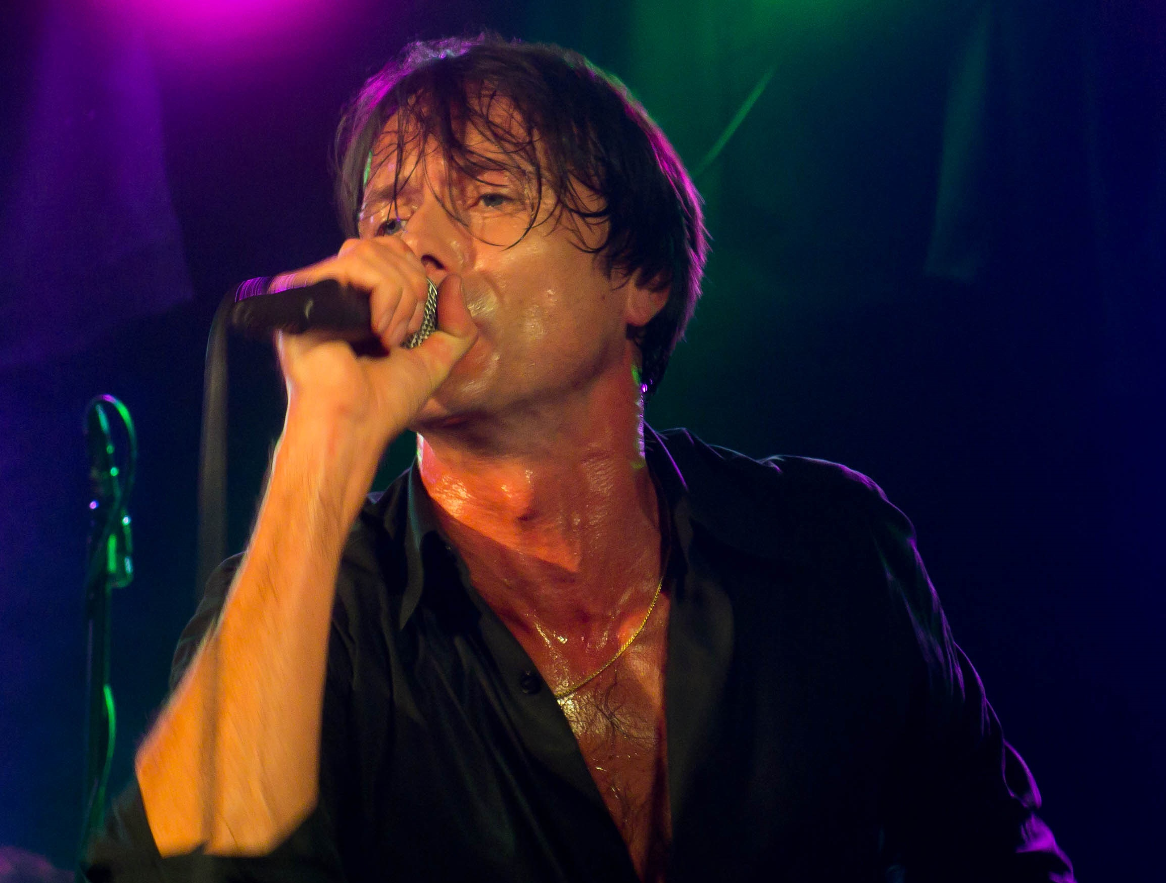 Brett Anderson on stage with Suede